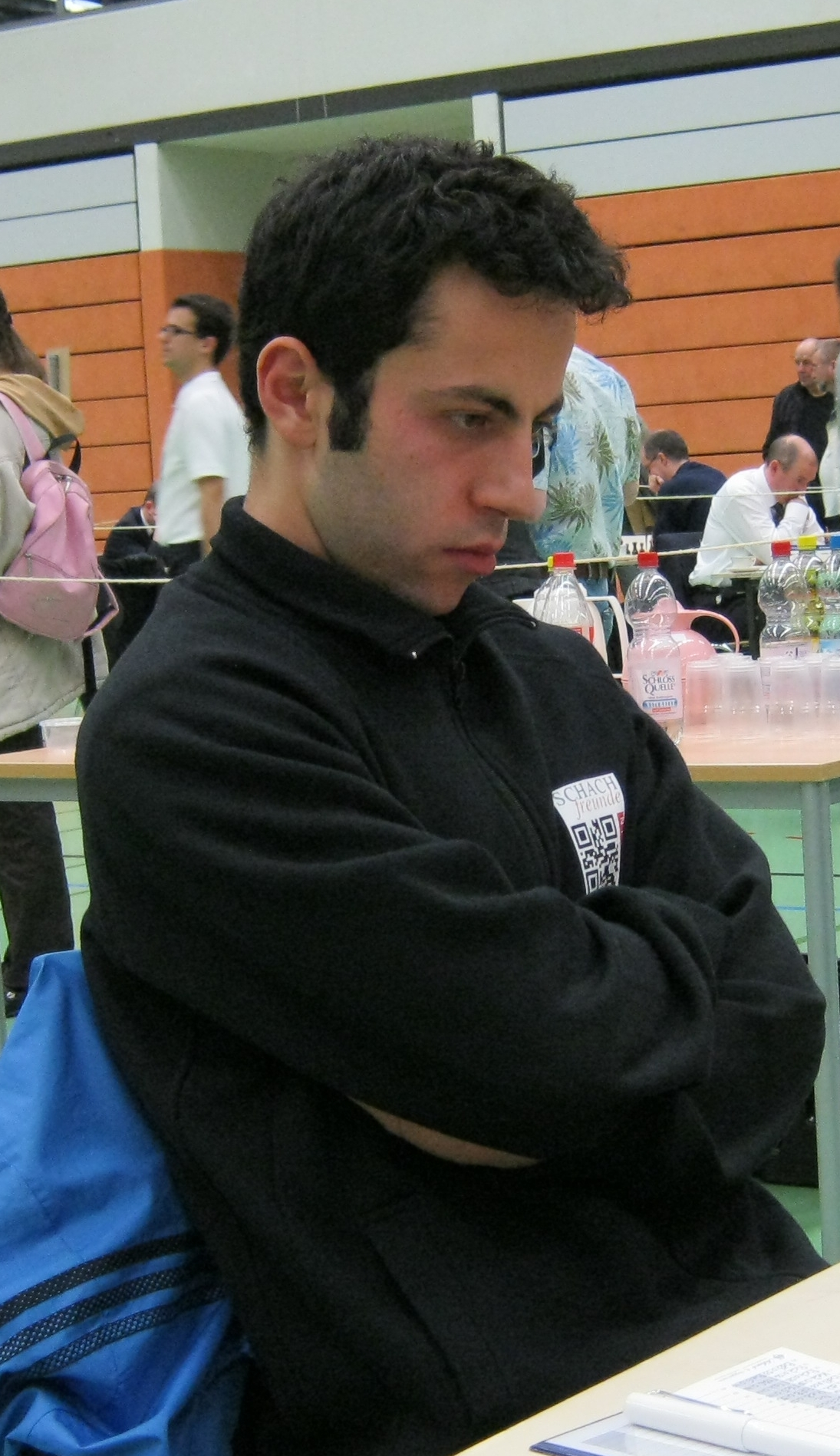 Hrant Melkumyan, chess grandmaster from Armenia